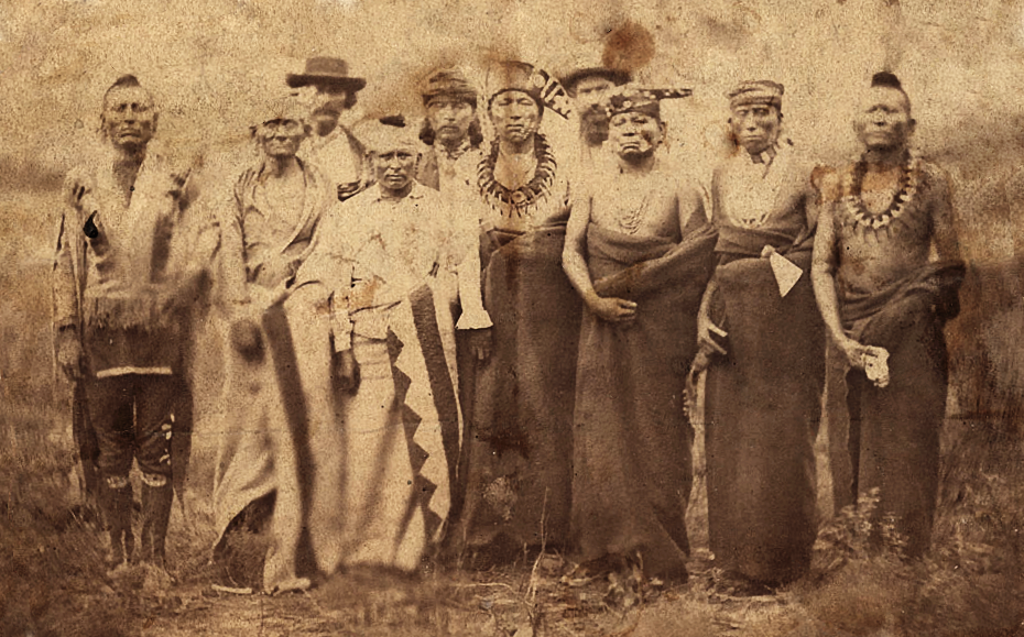 from British Museum page: "Photograph (black and white) from an album; studio portrait of a group of Osage men (from left to right); Young Black Dog standing wearing a decorated fringed hide shirt and leggings; Twelve O'Clock standing wearing a cloth shirt and a blanket wrapped around his waist; Ogias Captain standing wearing a cloth shirt and a hat; Little White Hair Chief, an Osage chief standing wearing a cloth shirt and a blanket wrapped around his waist; Alick Britt standing wearing a cloth shirt and a cloth turban; Big Hill Joe (Paw-ne-no-she), an Osage chief standing wearing a bear claw necklace, a cloth shirt, a blanket wrapped around his waist, and a fur cap with sheath; a White man standing wearing a cloth shirt and a hat; Playful Chief (Ga-hi-ge-wa- da-in-ga), an Osage chief standing wearing bead necklaces, a blanket wrapped around his waist, and a fur cap with sheath; The Distant Land (Ko-she-se-glo) standing wearing bead necklaces, a bead choker, a cloth turban, and a blanket wrapped around his waist, he is holding a tomahawk; and Reach to the Skies, an Osage chief standing wearing a bear claw neck ornament and a blanket wrapped around his waist; Fort Smith, United States of America."